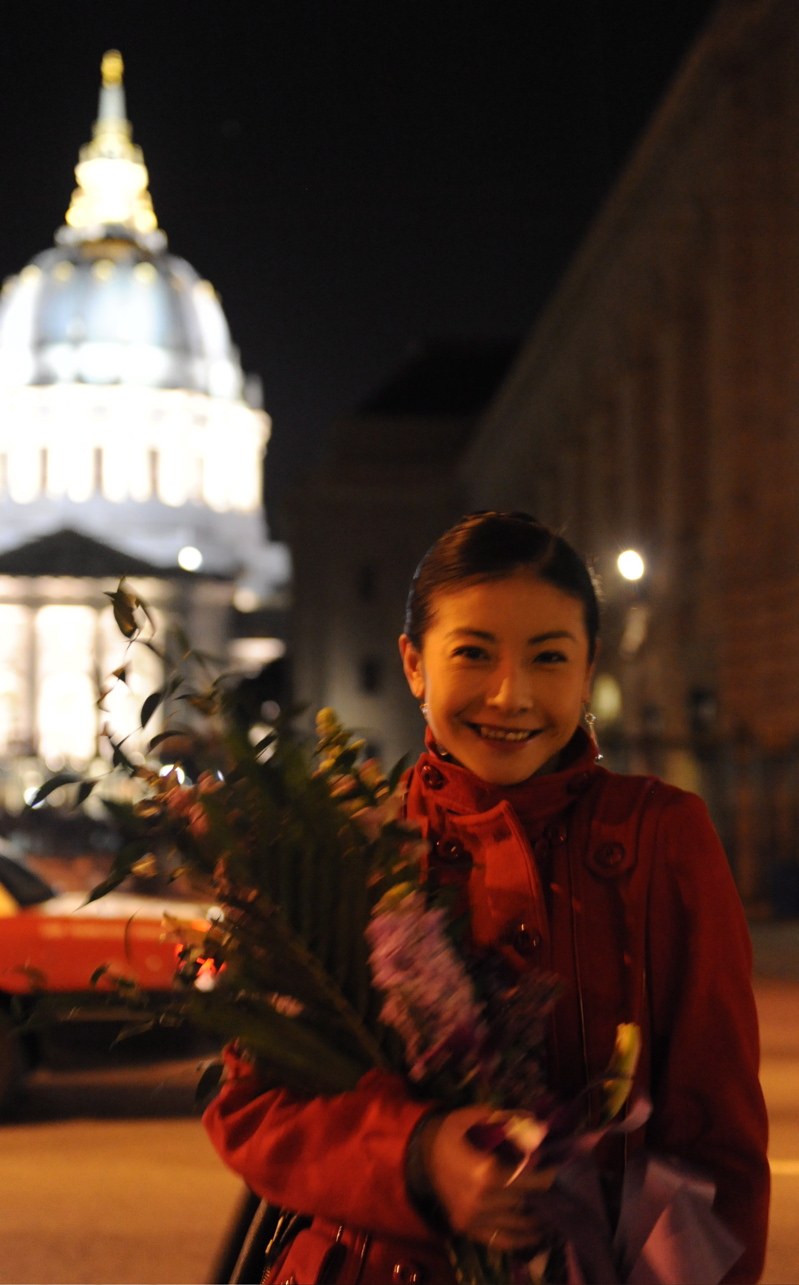 Yuan Yuan Tan after opening the the world premiere of "Diving into the lilacs"